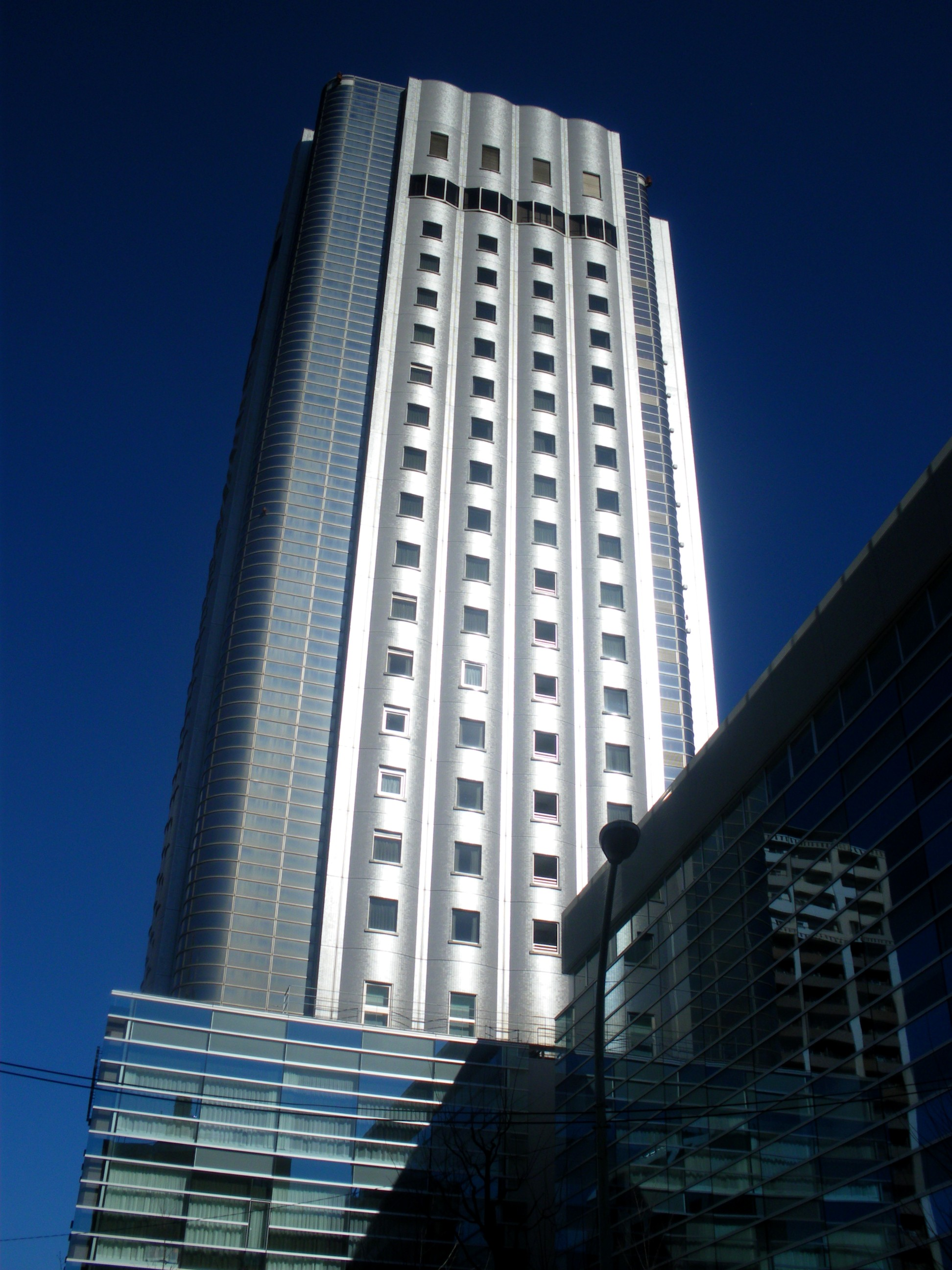 A photo of Fraser Place howff Shinjuku(A serviced apartment in Tokyo.)It is also known as "Fraser place Tokyo",and formerly known as "Hotel Kaiyo").It is located at Hyakunincho,Shinjuku-ku,Tokyo,Japan.